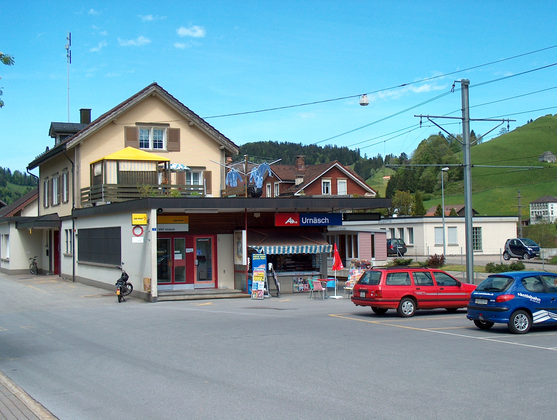 Railway station and post office of Urnäsch, canton of Appenzell Ausserrhoden, Switzerland.